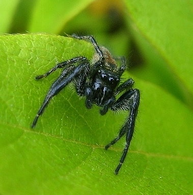 Carrhotus xanthogramma from Japan.